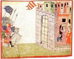 Nuova Cronica